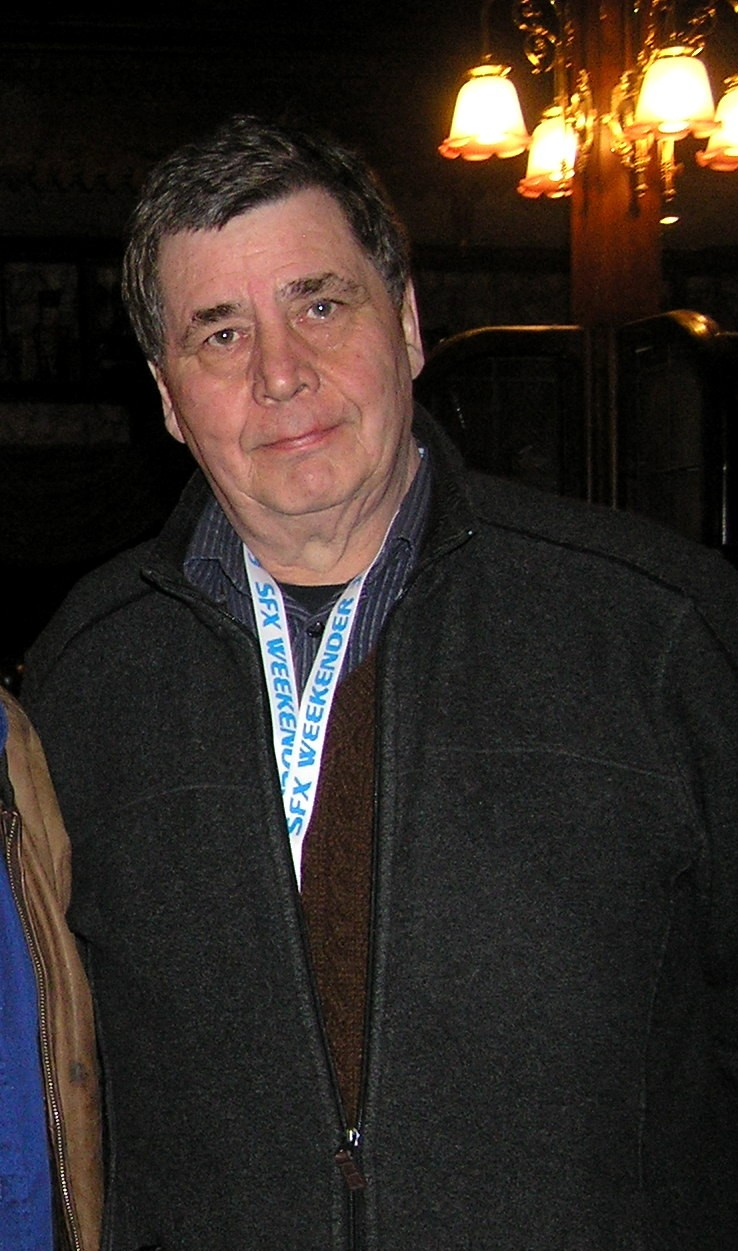 A photography of John Wagner taken on February 3, 2012 at the SFX Weekender.